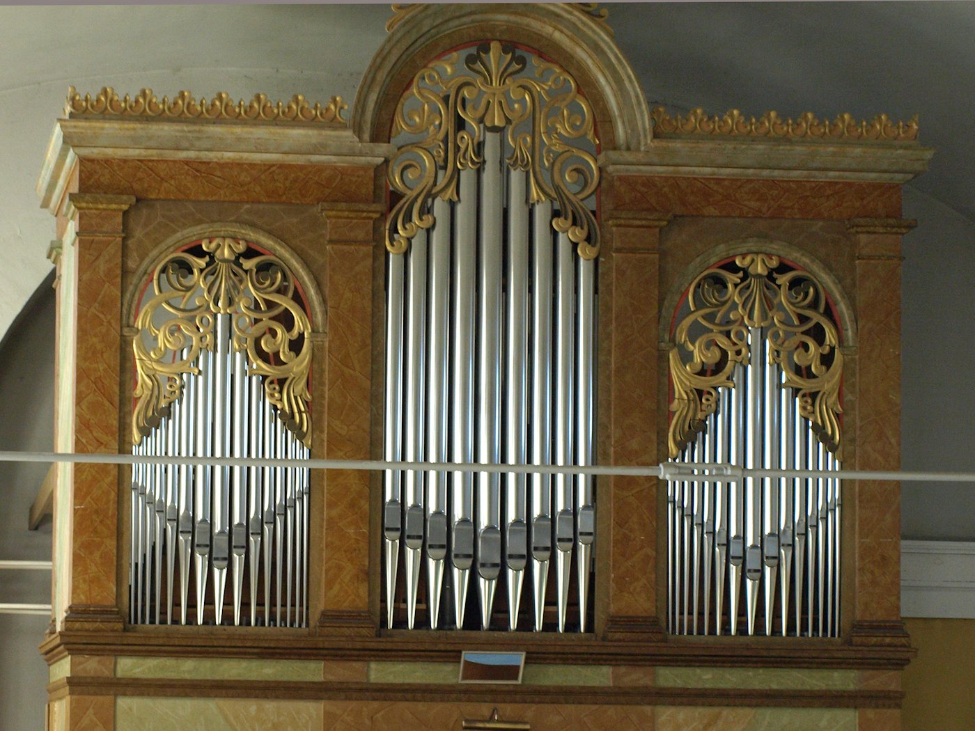 Intschede (Lower Saxony, Germany), Organ of the church, photo 2011